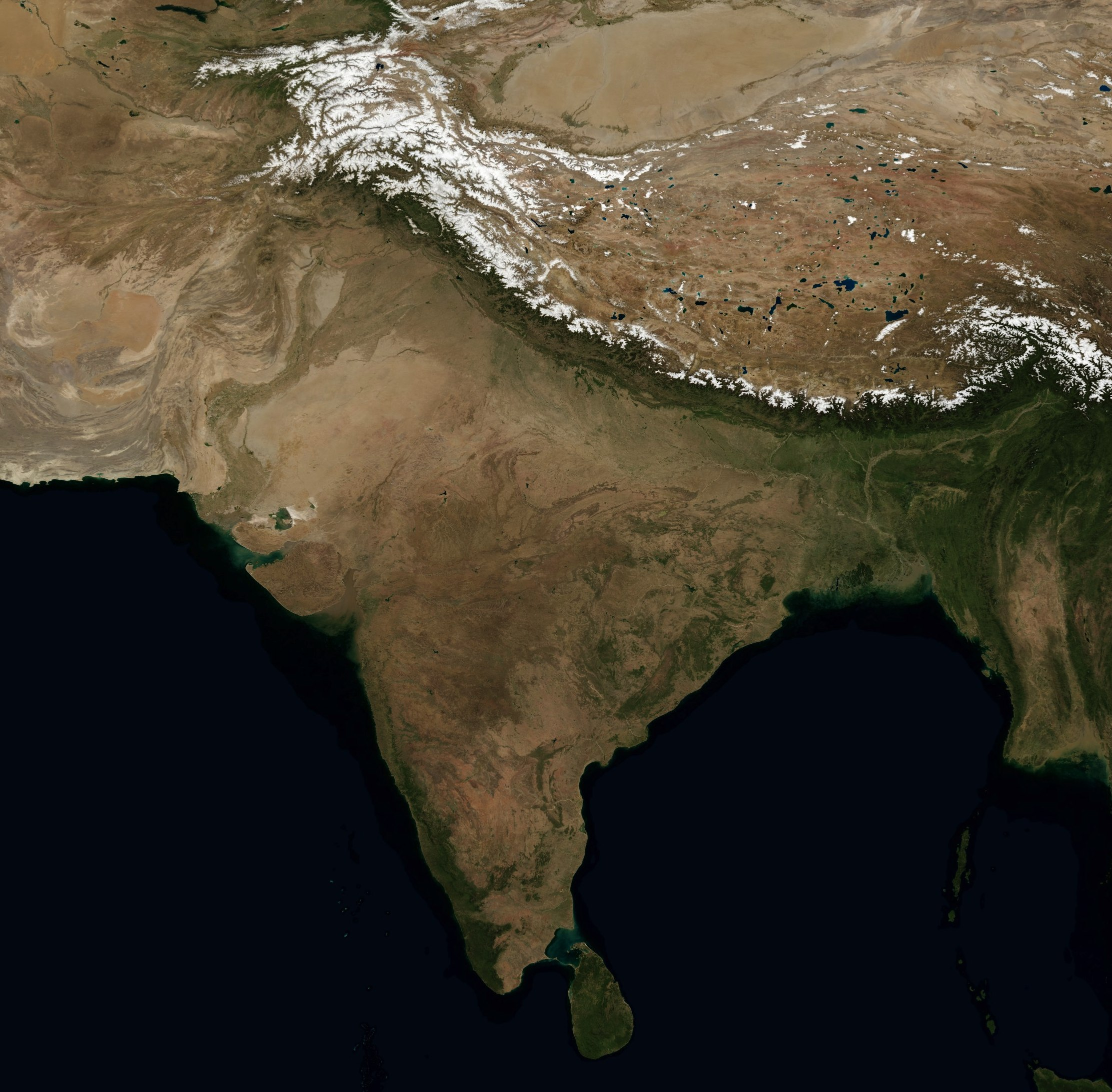 Image shows Indian Subcontinent.